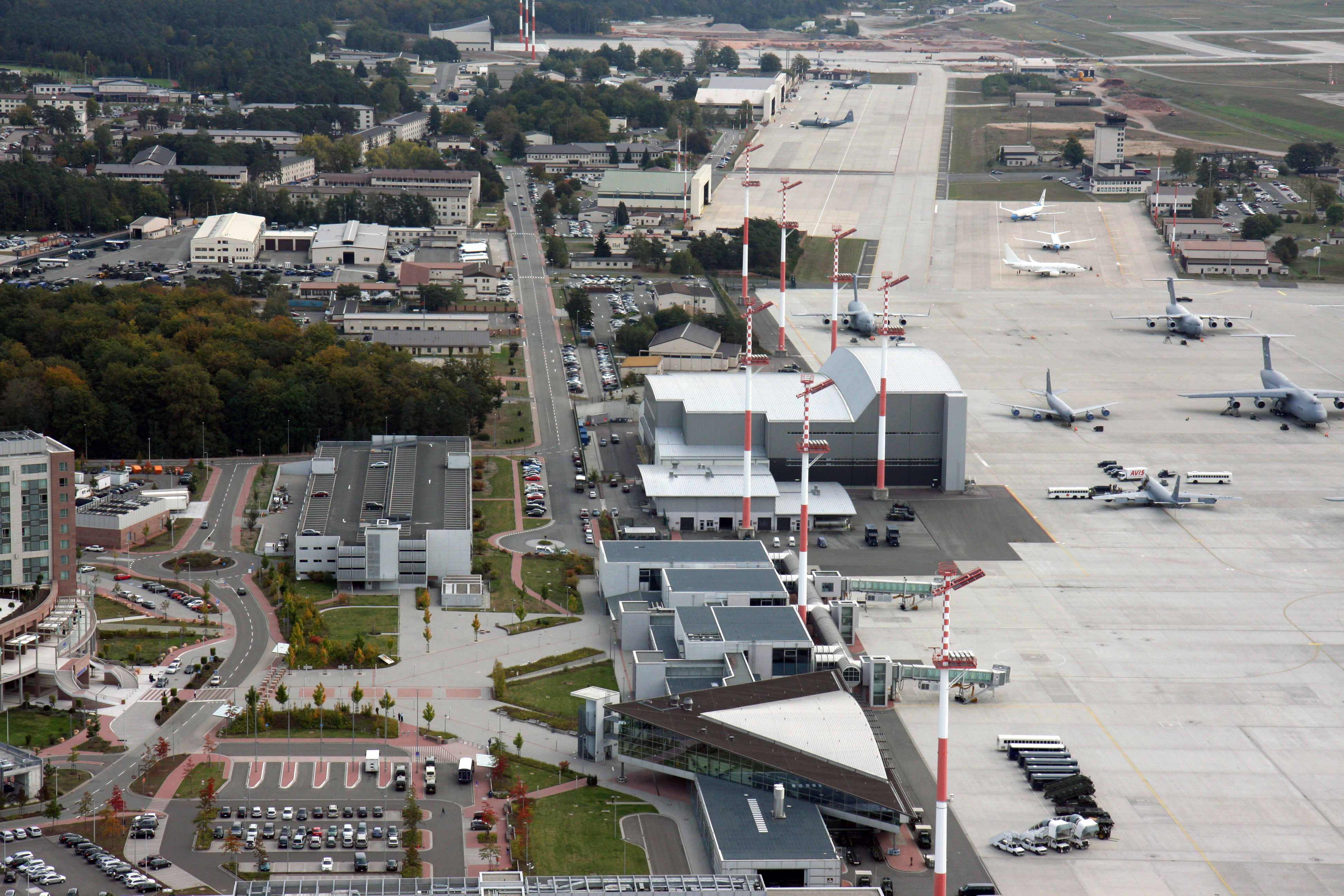 Thanks to the support from the U.S. Army Corps of Engineers Europe District, which managed the construction of new ramps, hangars, warehouses, a passengar terminal and more on the Ramstein flightline, the air base is now a major hub for mobility and airlift operations throughout Europe and downrange, hosting a variety of aircraft on its flightline. (U.S. Army Corps of Engineers photo by Justin Ward)